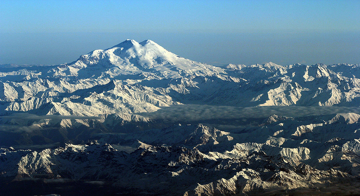 Mt Elbrus and the Caucasus Mountains viewed from the south about 150km away.